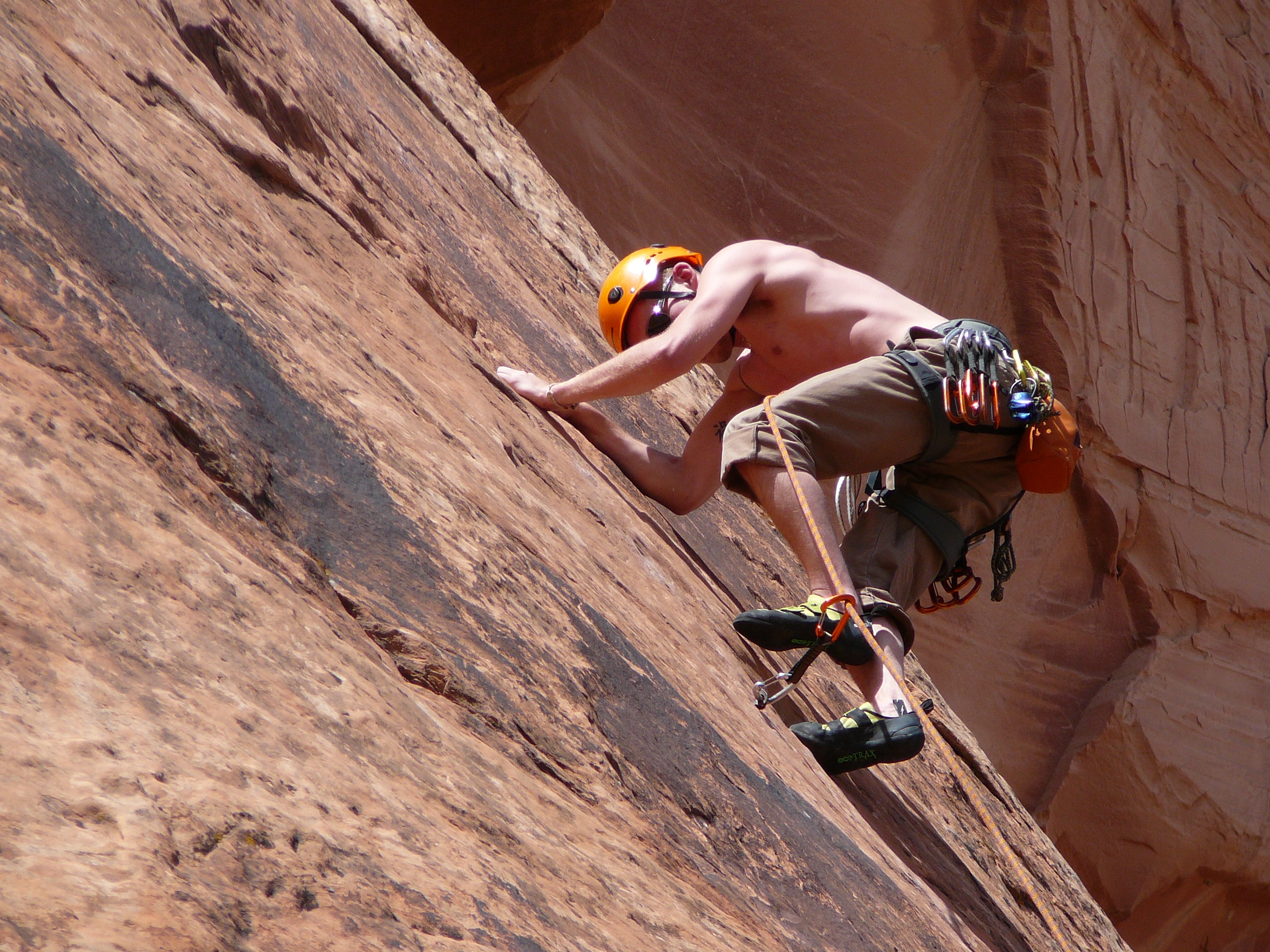 Slab Climbing in Utah, near Moab